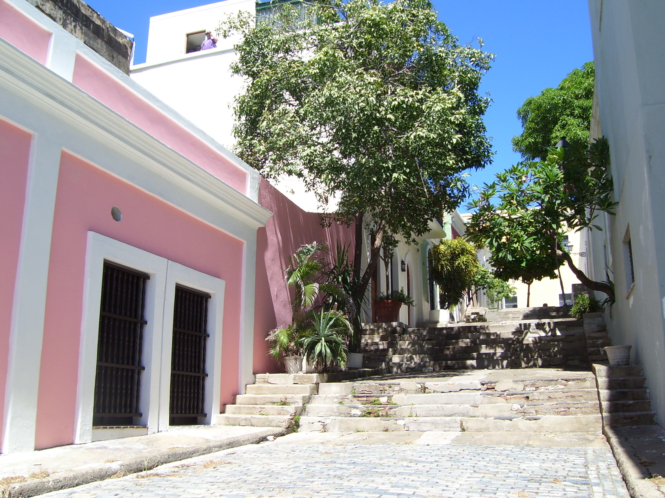 Stepped alley in Old San Juan, Puerto Rico